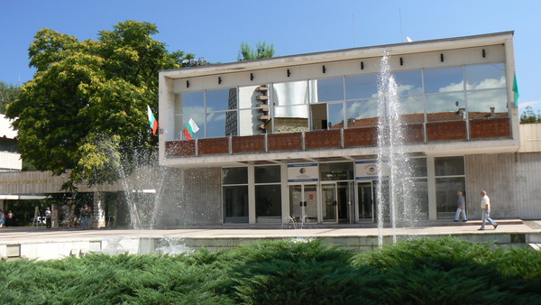 This photo was uploaded during the creation of the first wikitown in Bulgaria – WikiBotevgrad.